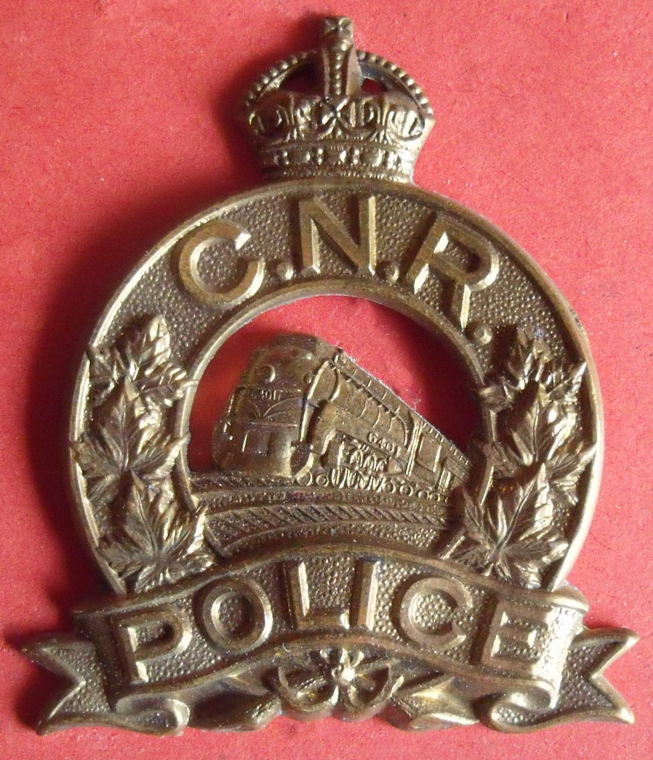 Part of my Canadian Law enforcement badge collection This badge would have been worn prior to 1953